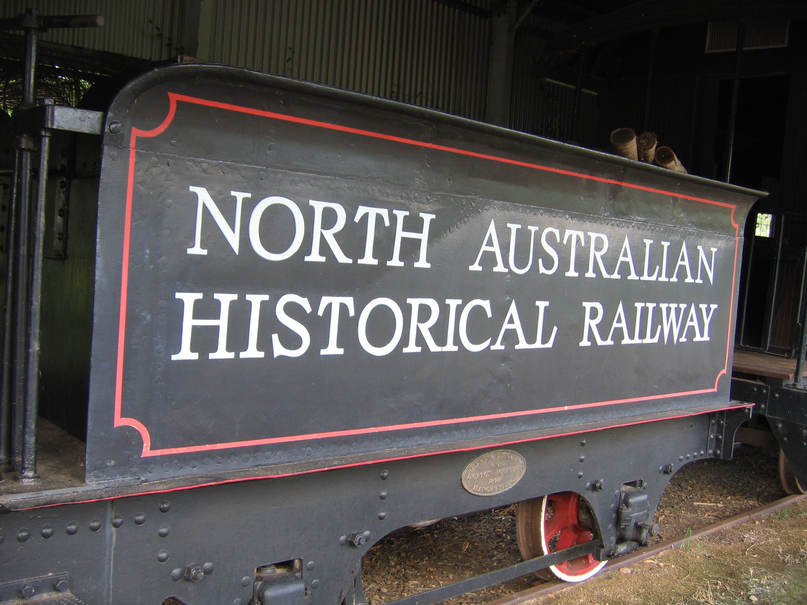 North Australian Historic Railway